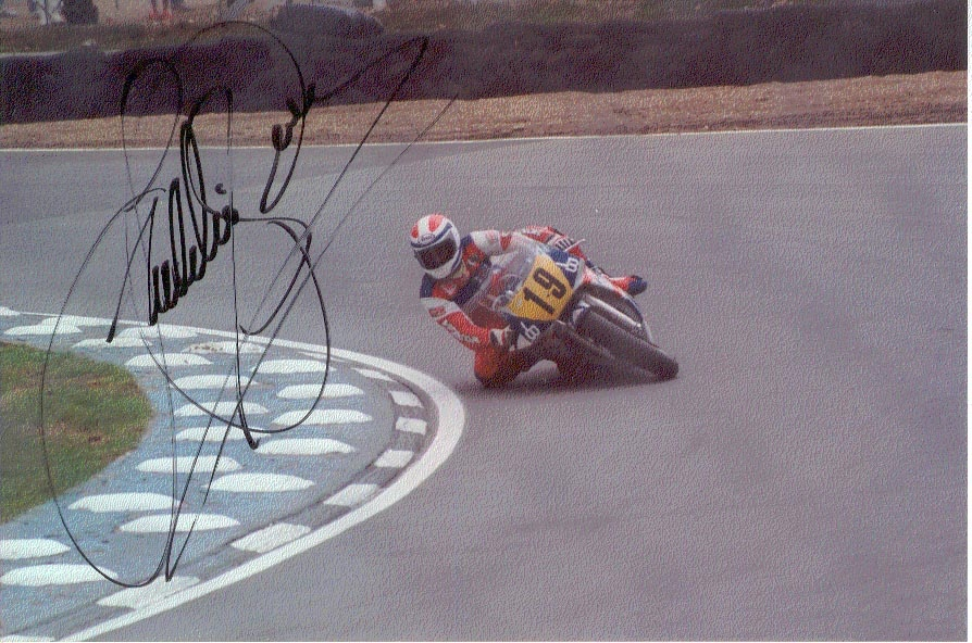 Freddie Spencer at Brands Hatch UK.